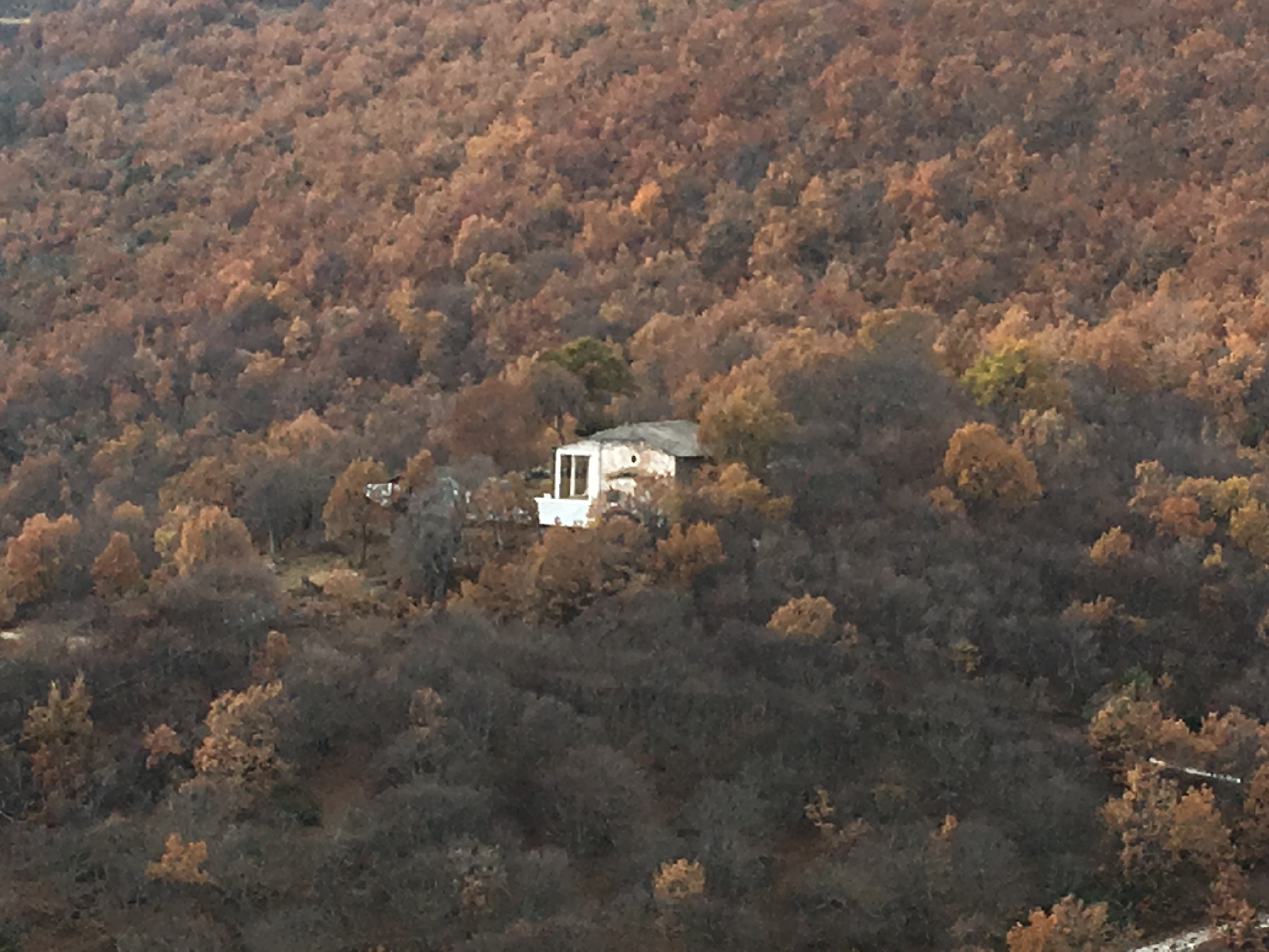 St. Athanasius Church in the village of Rakle